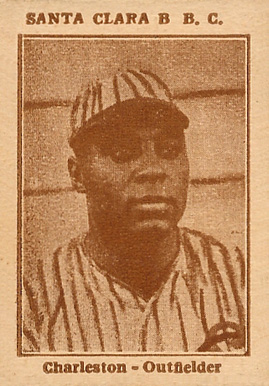 Cuban baseball card of Oscar Charleston